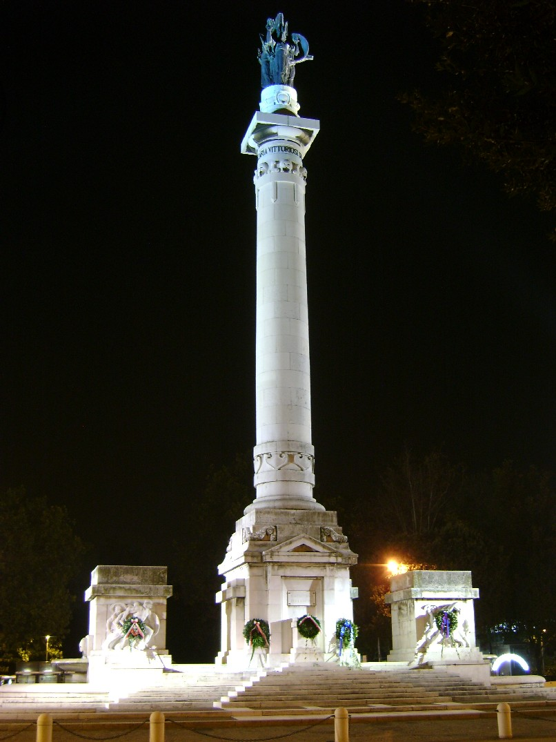 The monument to the dead of all Wars in Vittoria square to Forlì